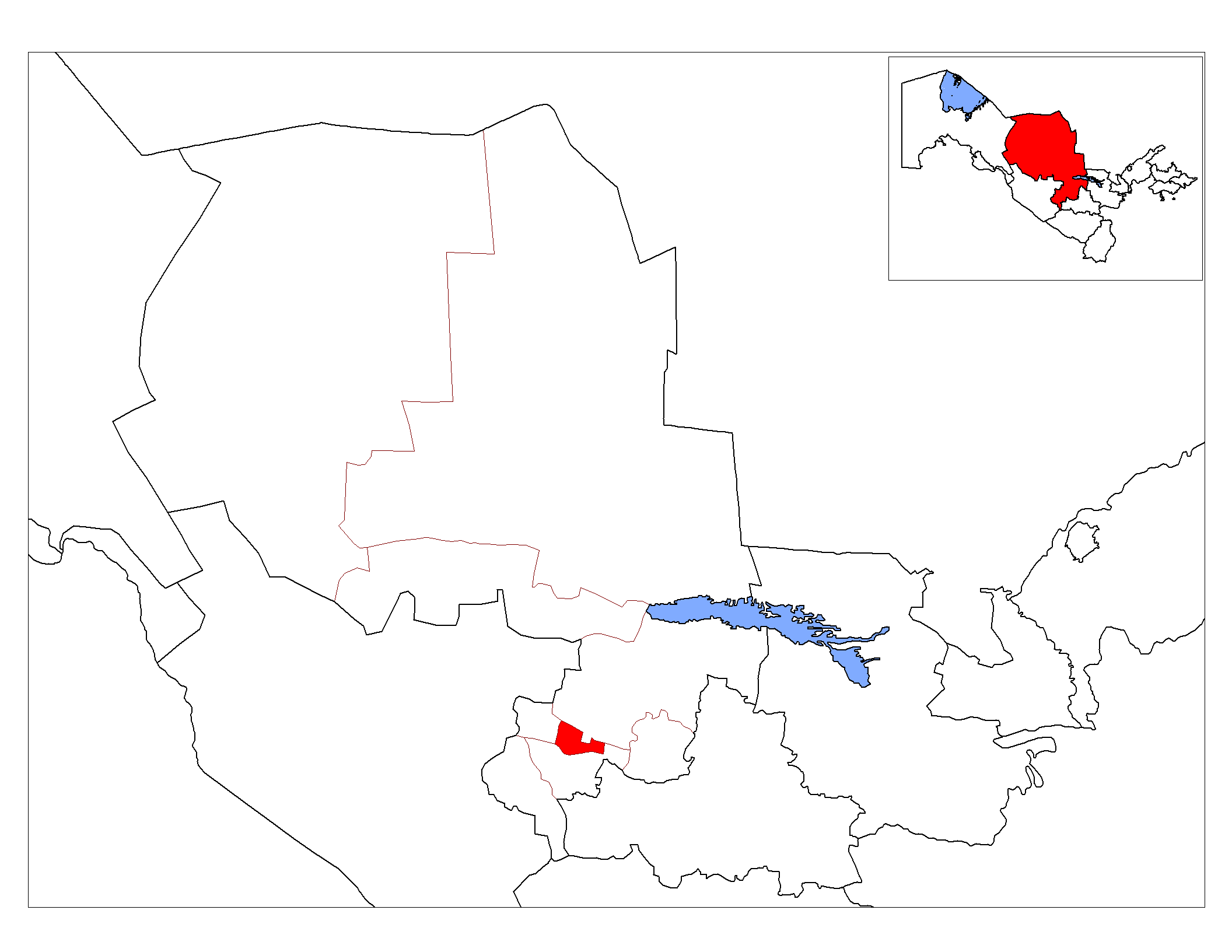 Location map of Navbahor District in Navoiy Province, Uzbekistan